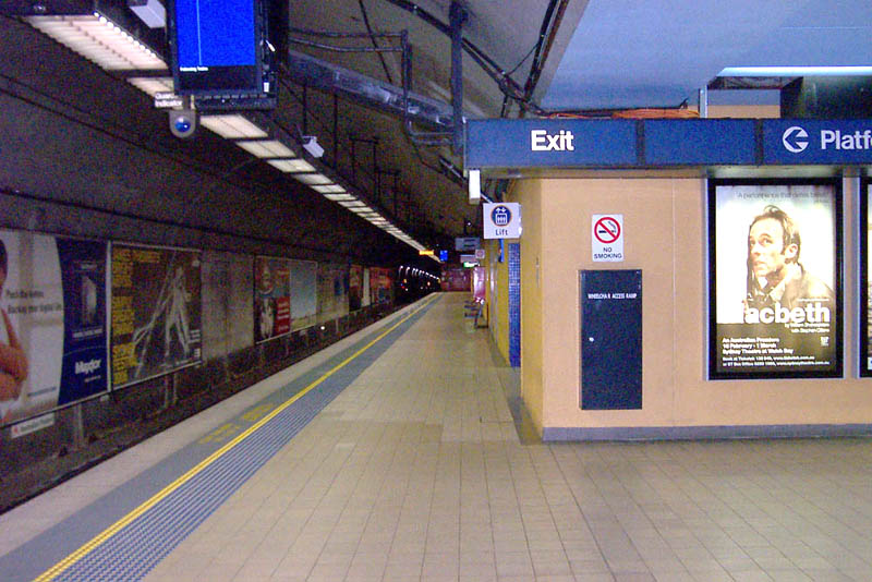 Photo of Bondi Junction Railway Station